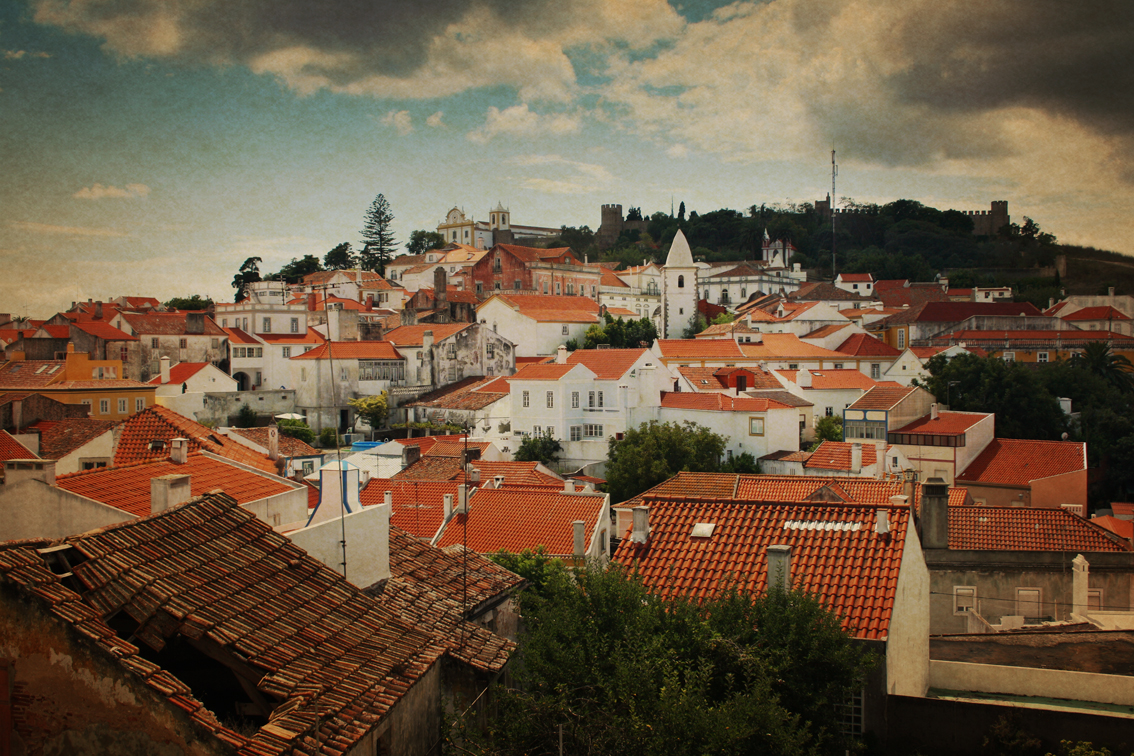 Panoramic view of the historic centre of Santiago do Cacém. Alentejo, Portugal. Sept 2011